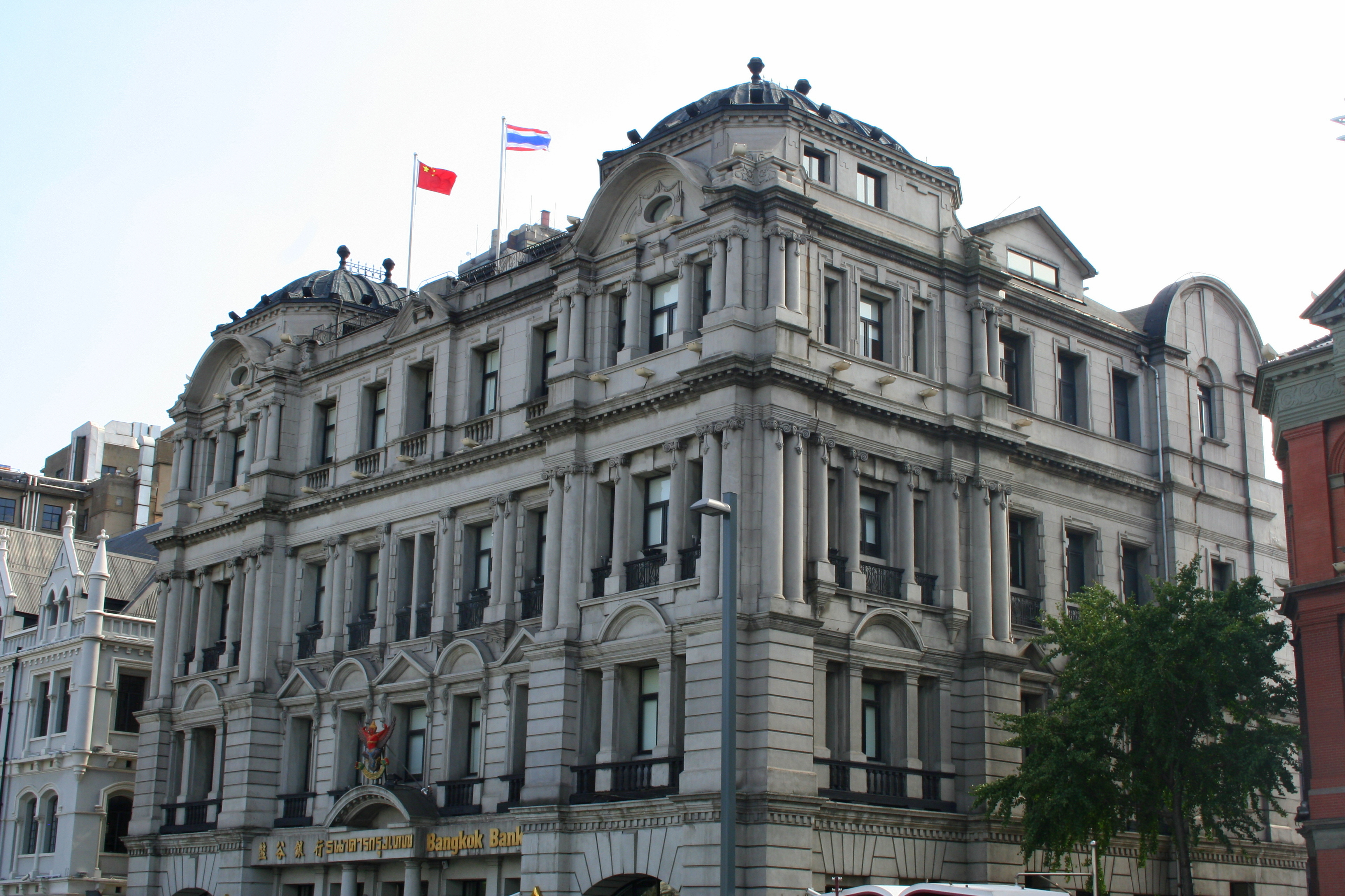 This is a picture of the Bangkok Bank and the Thai consulate in Shanghai, as seen diagonally from its side. It is located at #7, The Bund. It was originally the headquarters of the The Great Northern Telegraph Company.